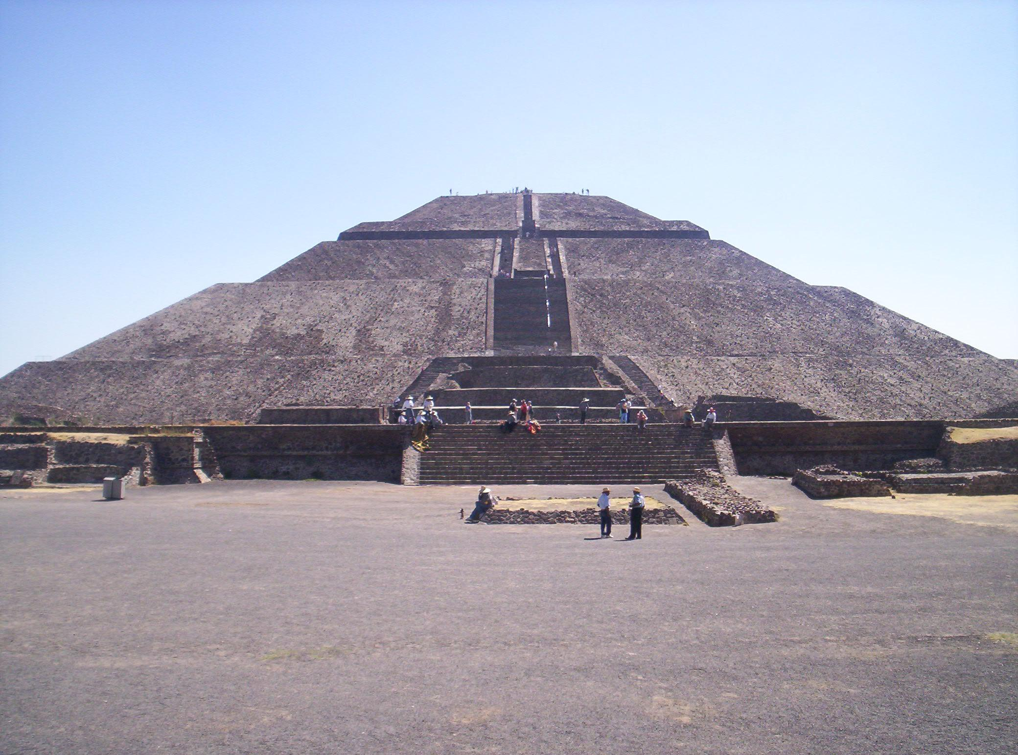 The Pyramid of the Sun at Teotihuacan.